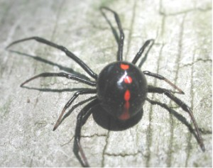 Black widow, upper rear view. Hemingway, South Carolina